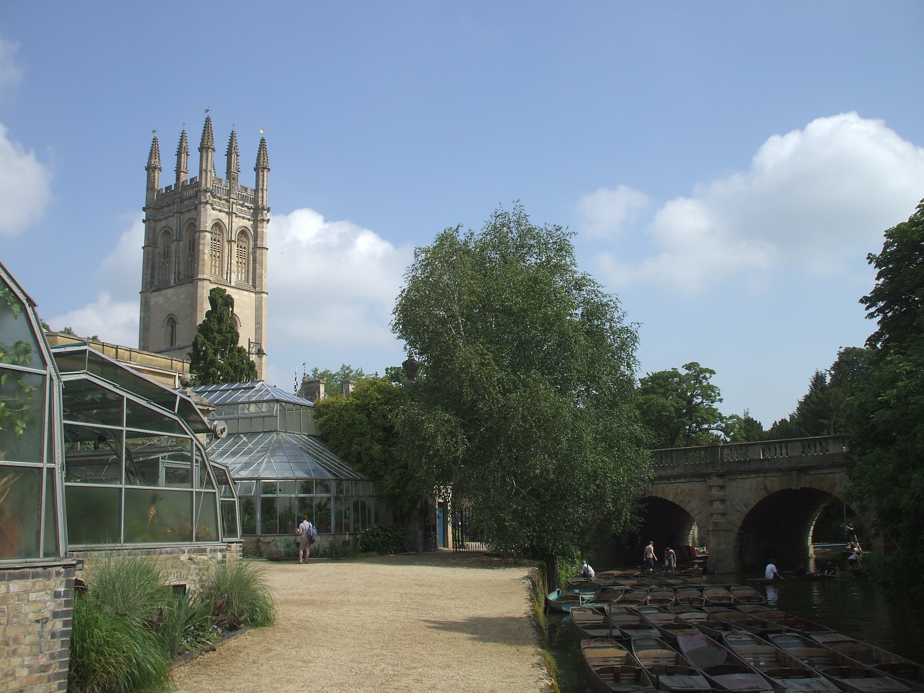 Madgalen Tower from the Oxford Botanic Gardens by the River Isis.